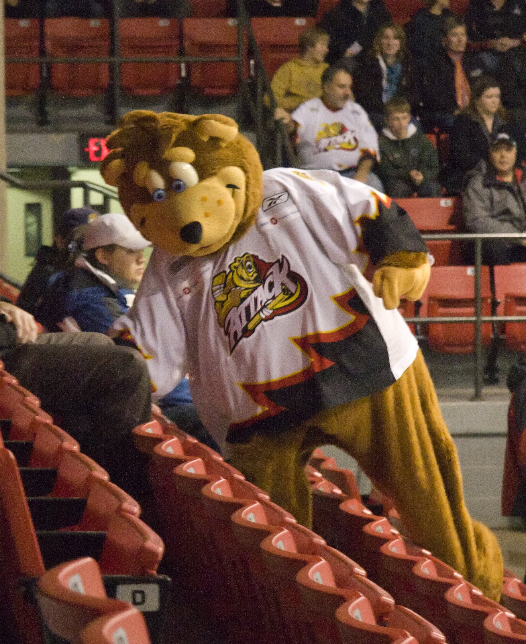 Owen Sound Attack mascot Cubby, in the stands during a game